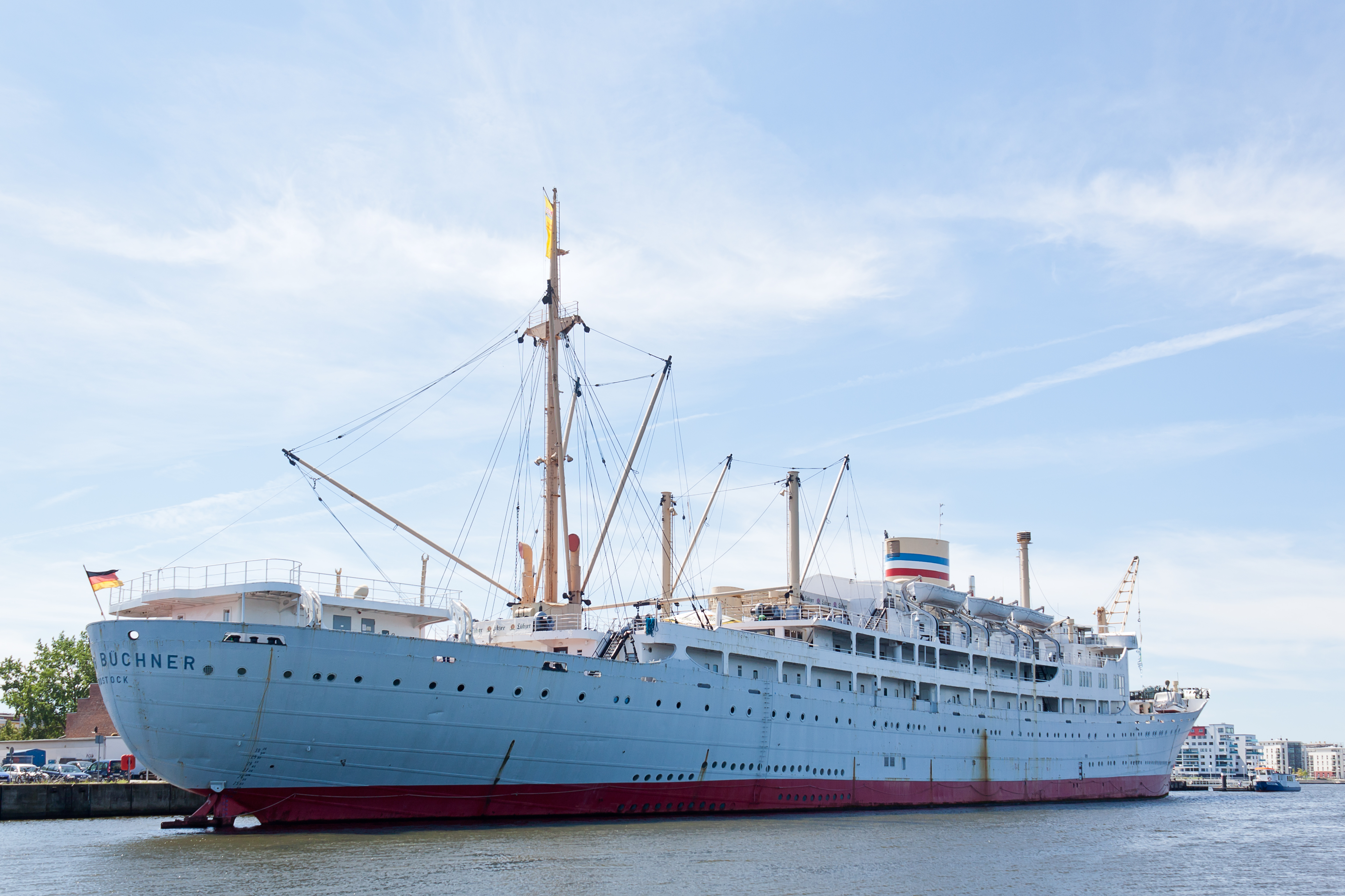 This ship was build in 1951, under the name of Charlesville for the Compagnie Maritime Belge on the Congo - Belgium service. It was sold in 1967 to East-Germany. The ship could carry 9123 tdw of freight and host up to 248 passengers. The MS Georg Büchner was in service as a training ship for the East German shipping company Deutsche Seerederei. From the early 1990s until 2013 it served as hotelship belayed at Rostock in the city port. Despite its status of a historic site and efforts from enthusiasts to preserve it the Charlesville resp.Georg Buechner was sold for scrap. The unmanned ship sunk at 54-55,871'N 018-31,308'E while being towed to Lithuania.